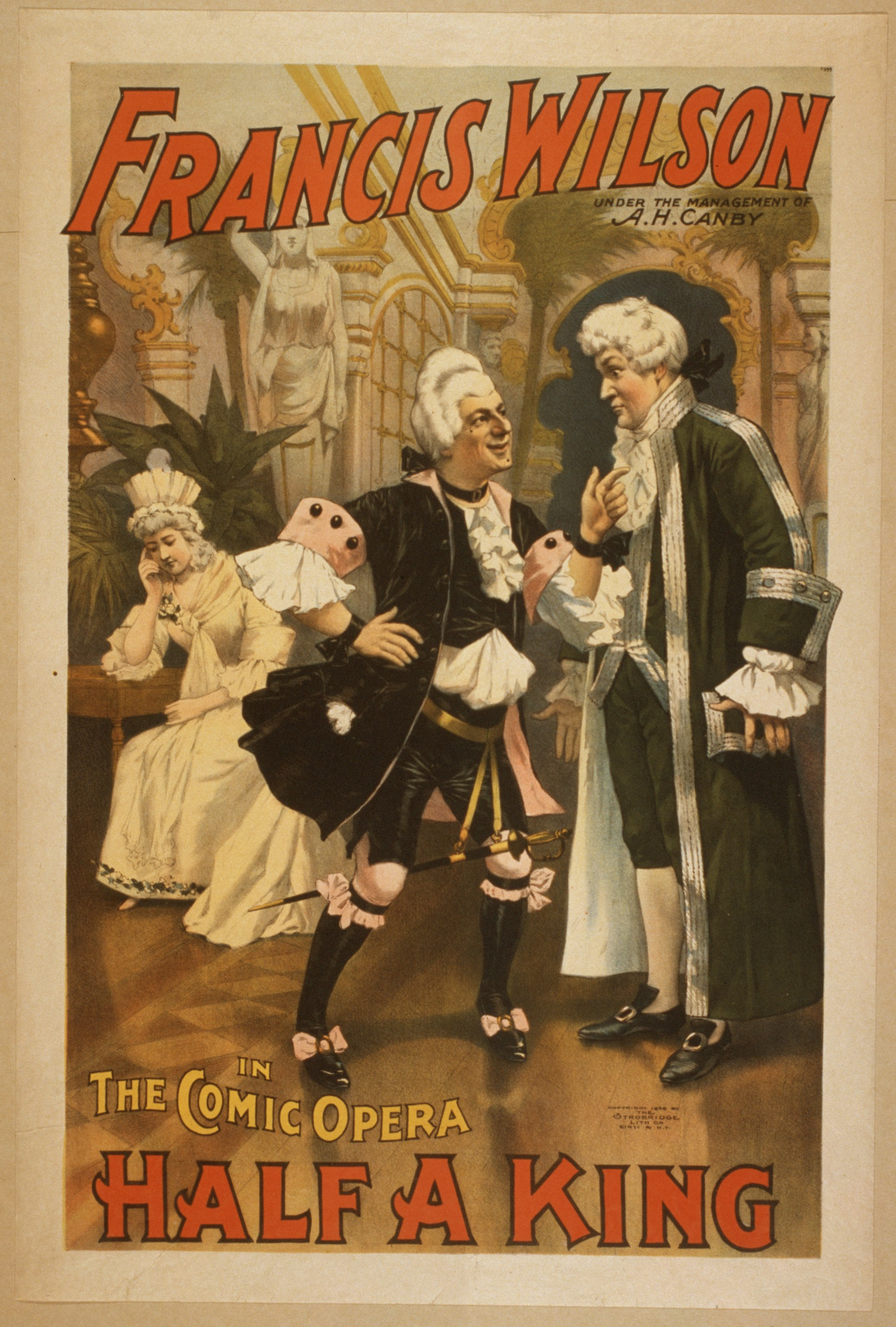 Title: Francis Wilson under the management of A.H. Canby in the comic opera, Half a king Abstract: 1 print : color lithograph ; sheet 74 x 49 cm. (poster format)